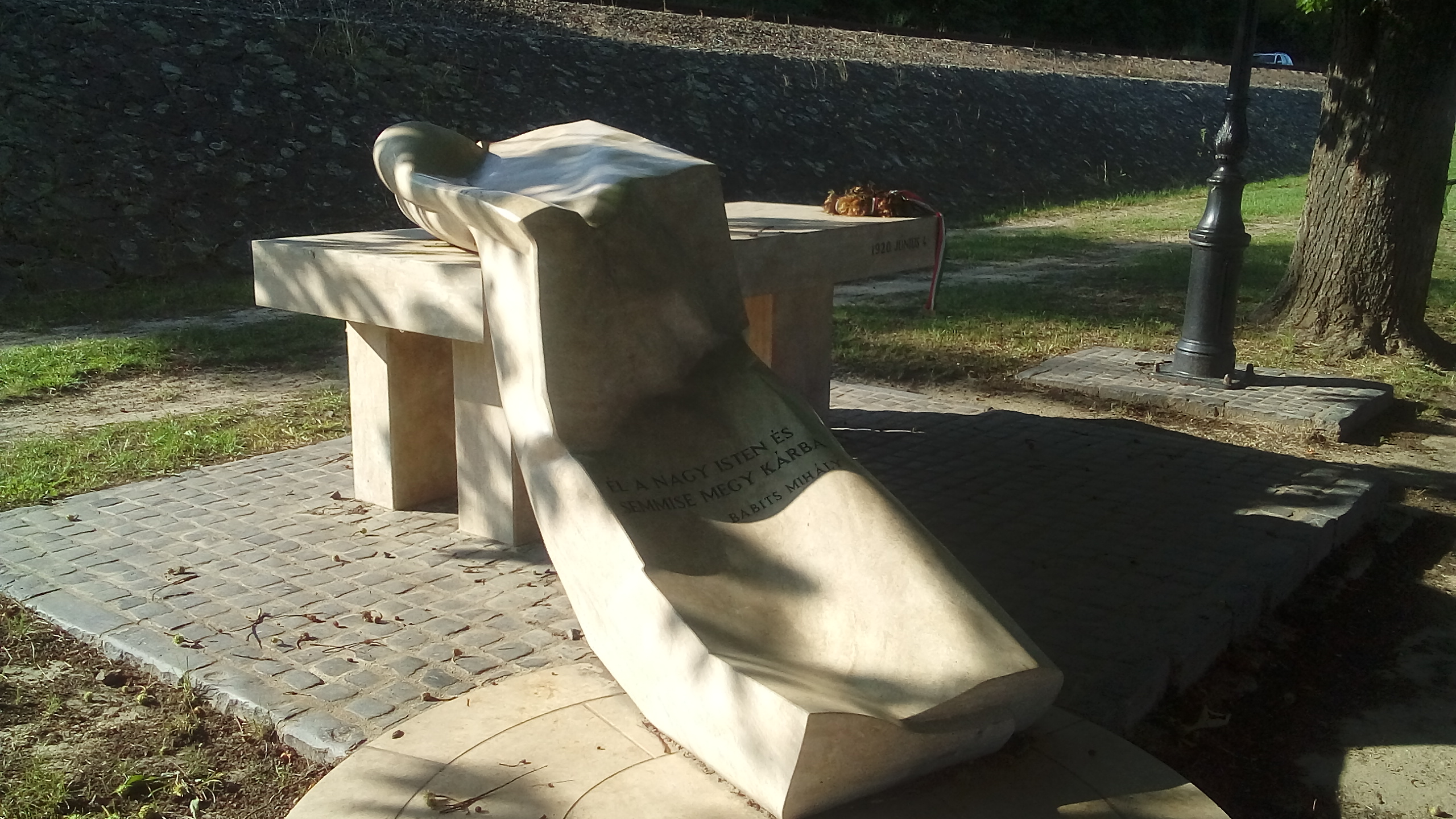 Trianon Memorial in Paks, Hungary, built in 2014